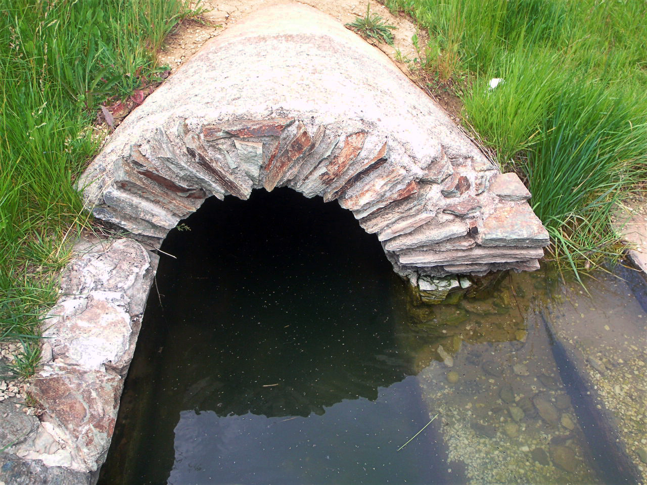 Bozsok-Savaria-Roman Aqueduct in Bucsu Highway 89